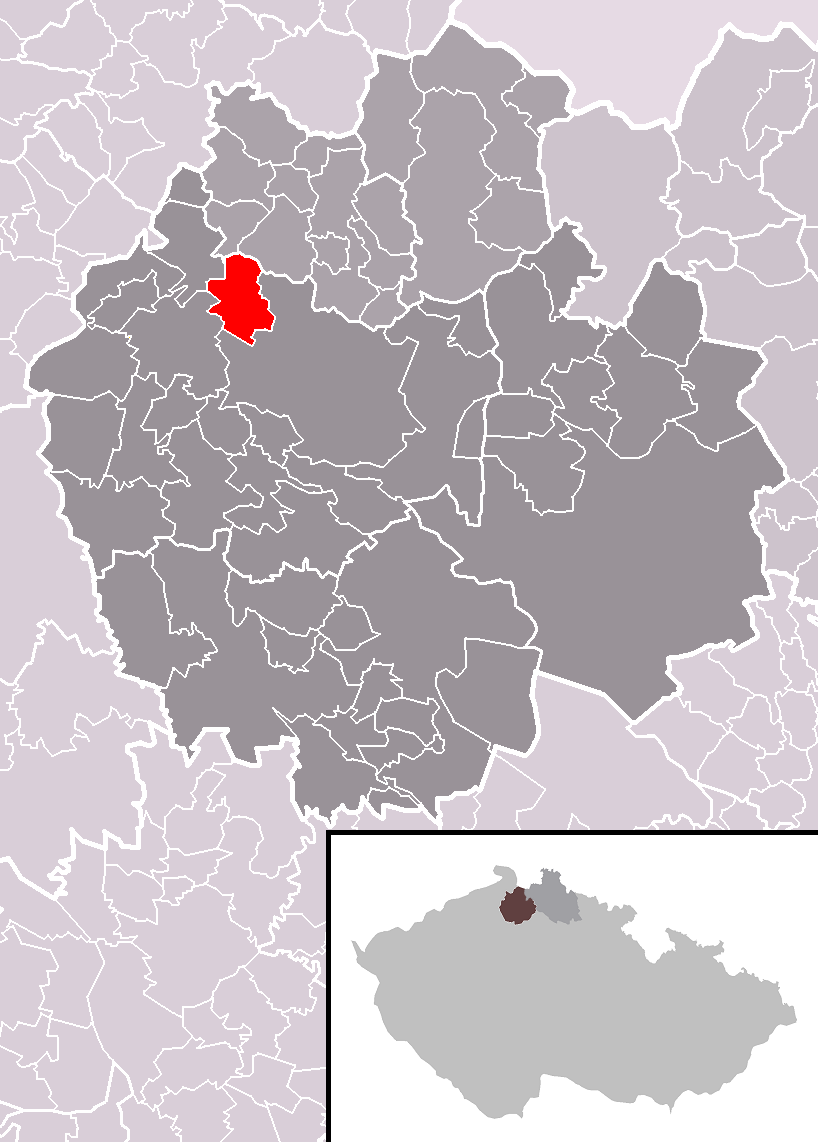 Location of Horní Libchava municipality within Česká Lípa District and administrative area of Česká Lípa as a Municipality with Extended Competence.